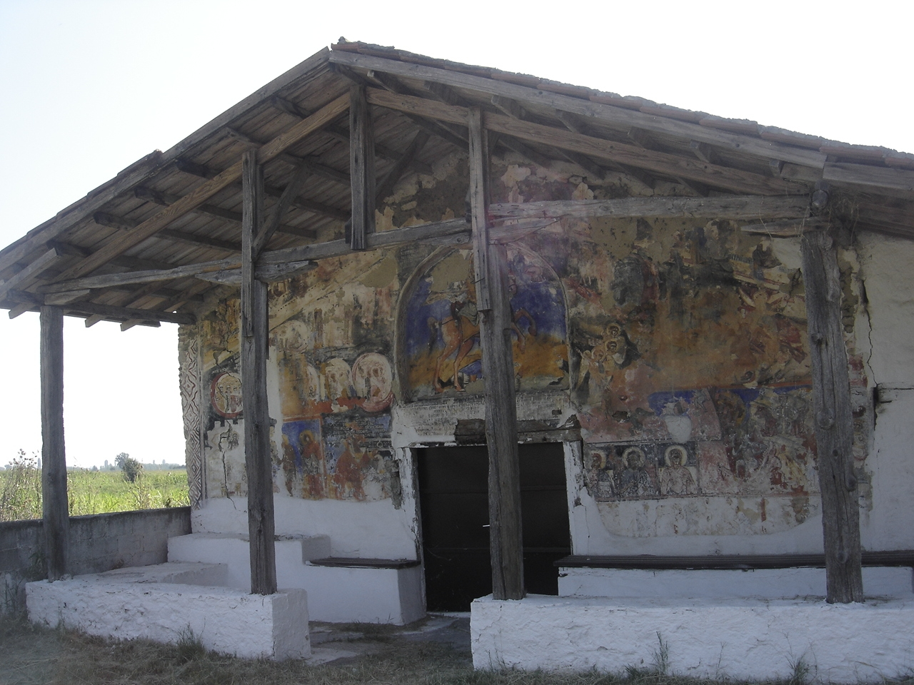 Church of Agios Dimitrios in Dion.